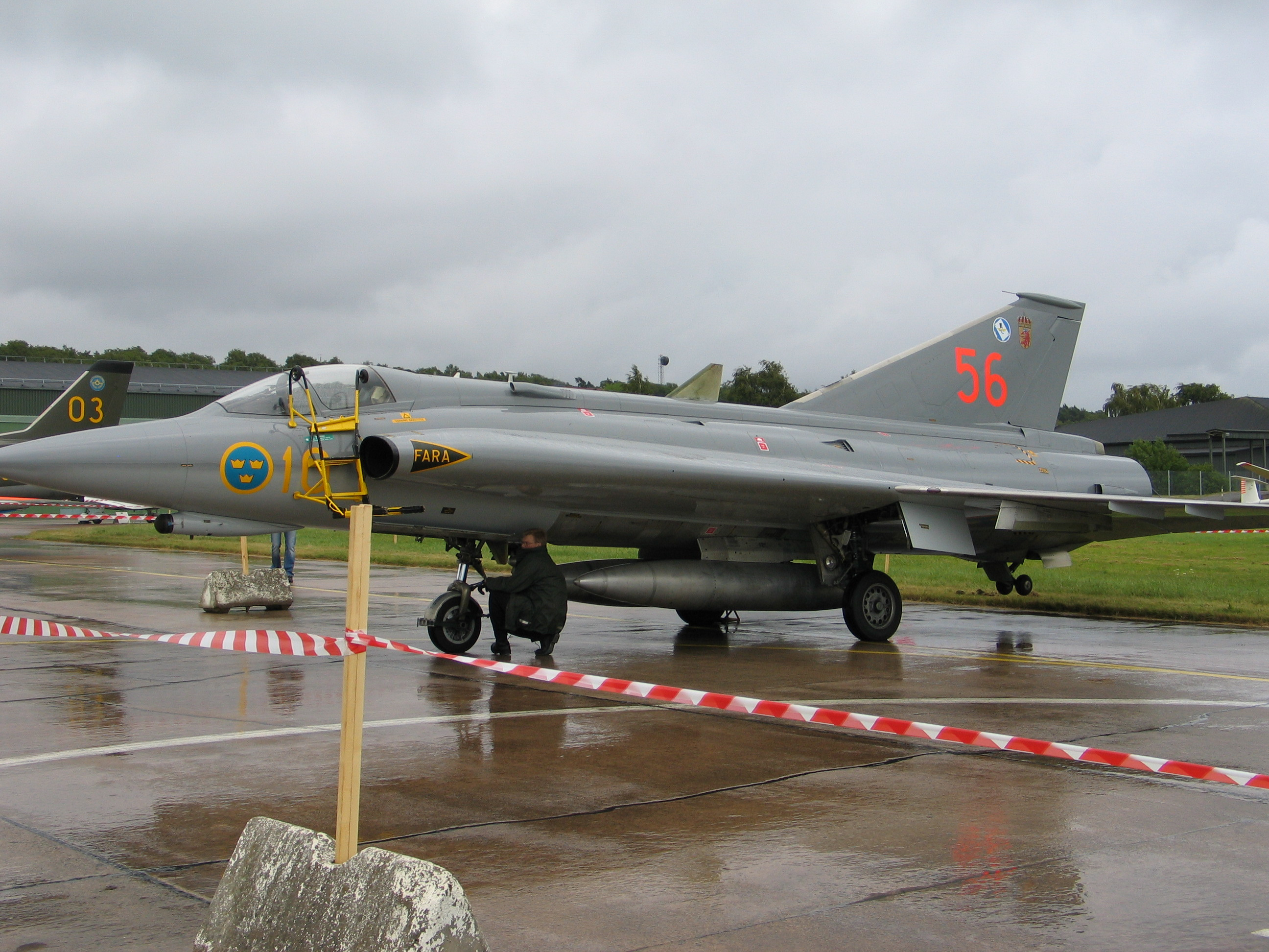 Saab J 35F-2 Draken formerly based at the F 10 air wing in Ängelholm. Photo taken at air show in Halmstad, 2004